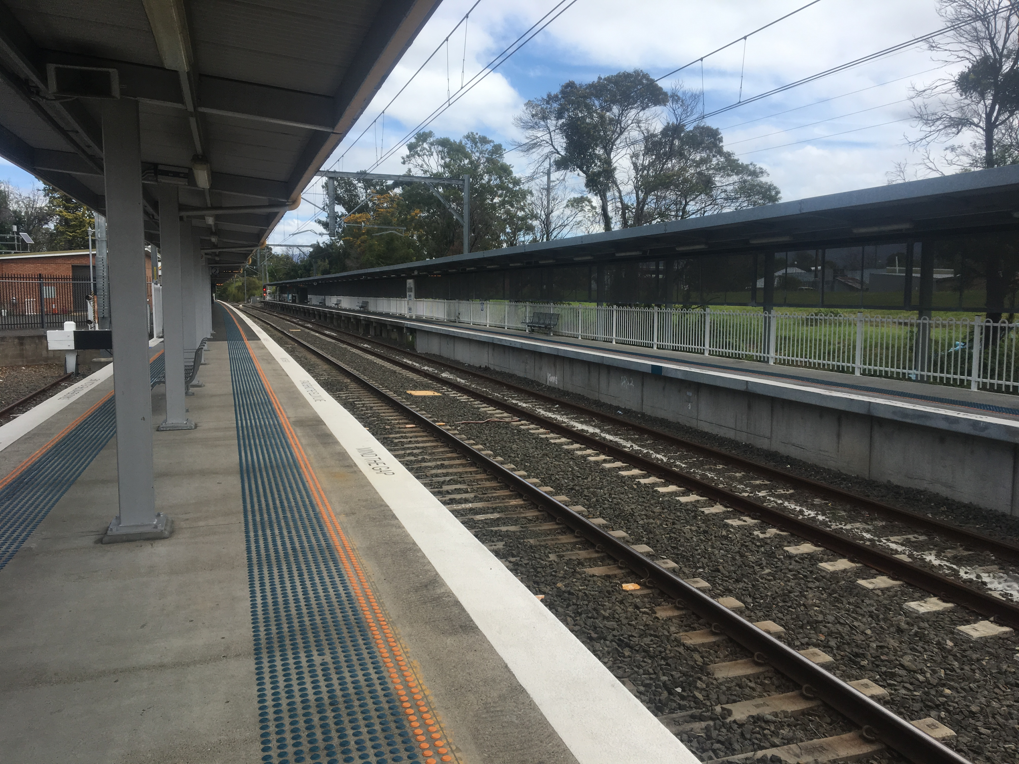 The track and platform at Dapto railway station.